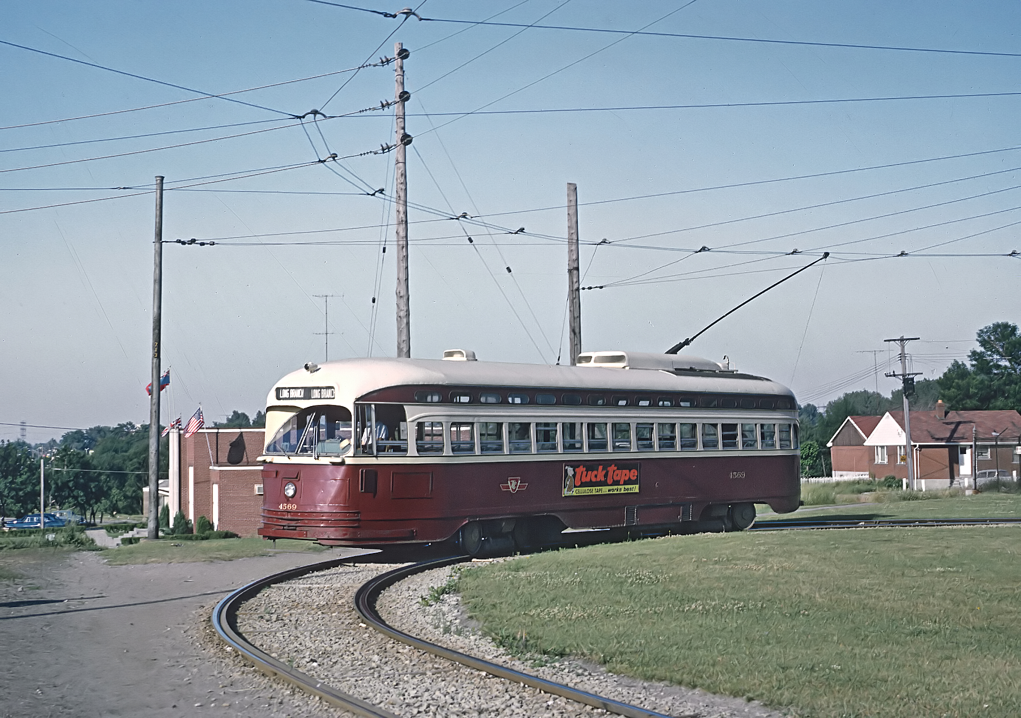 Roger Puta photograph